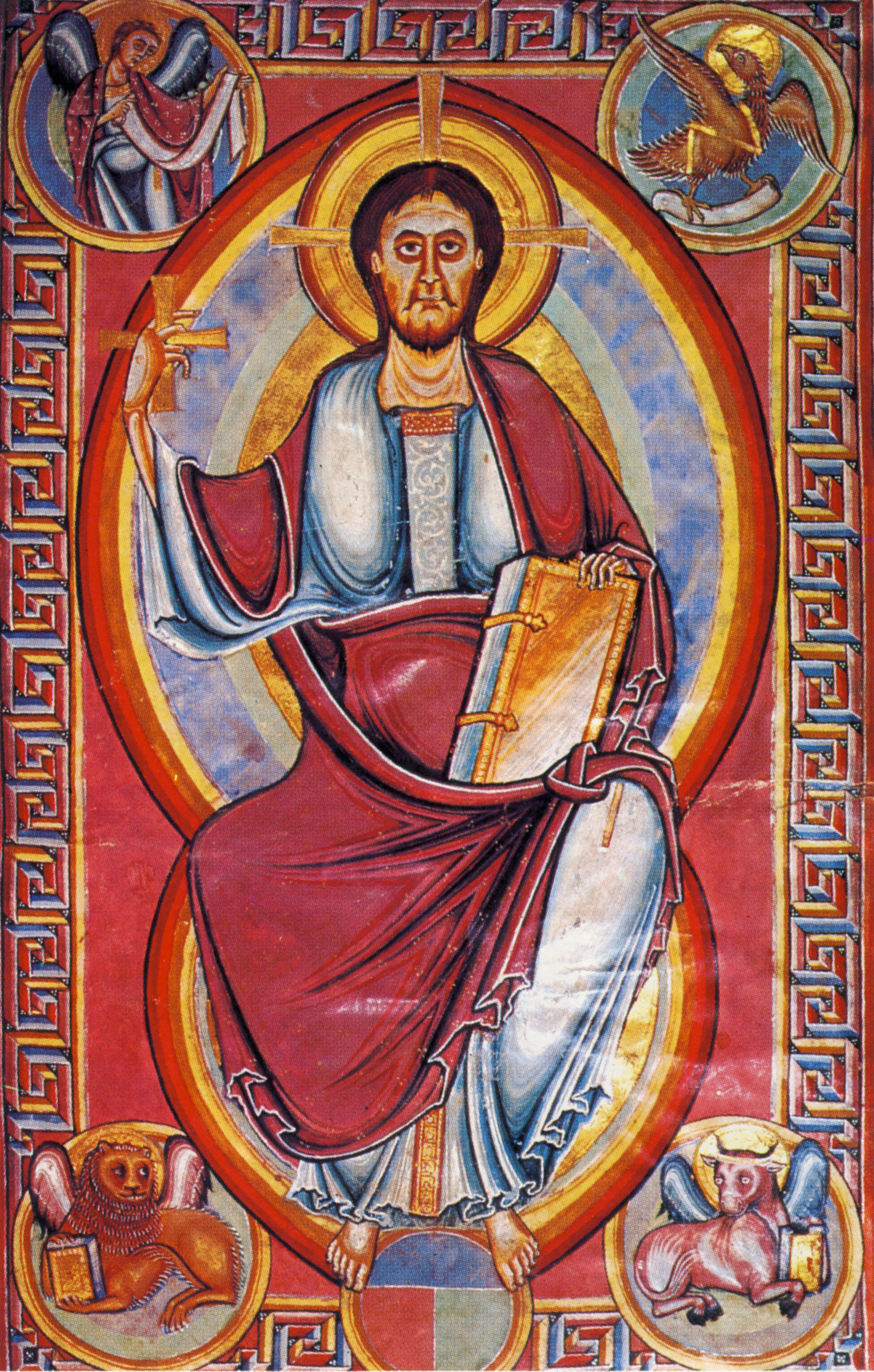 Page from the Stavelot Bible. Stavelot monastery, Mosan region, Belgium. 57.5 x 37 cm. In the collection of the British Library, London.